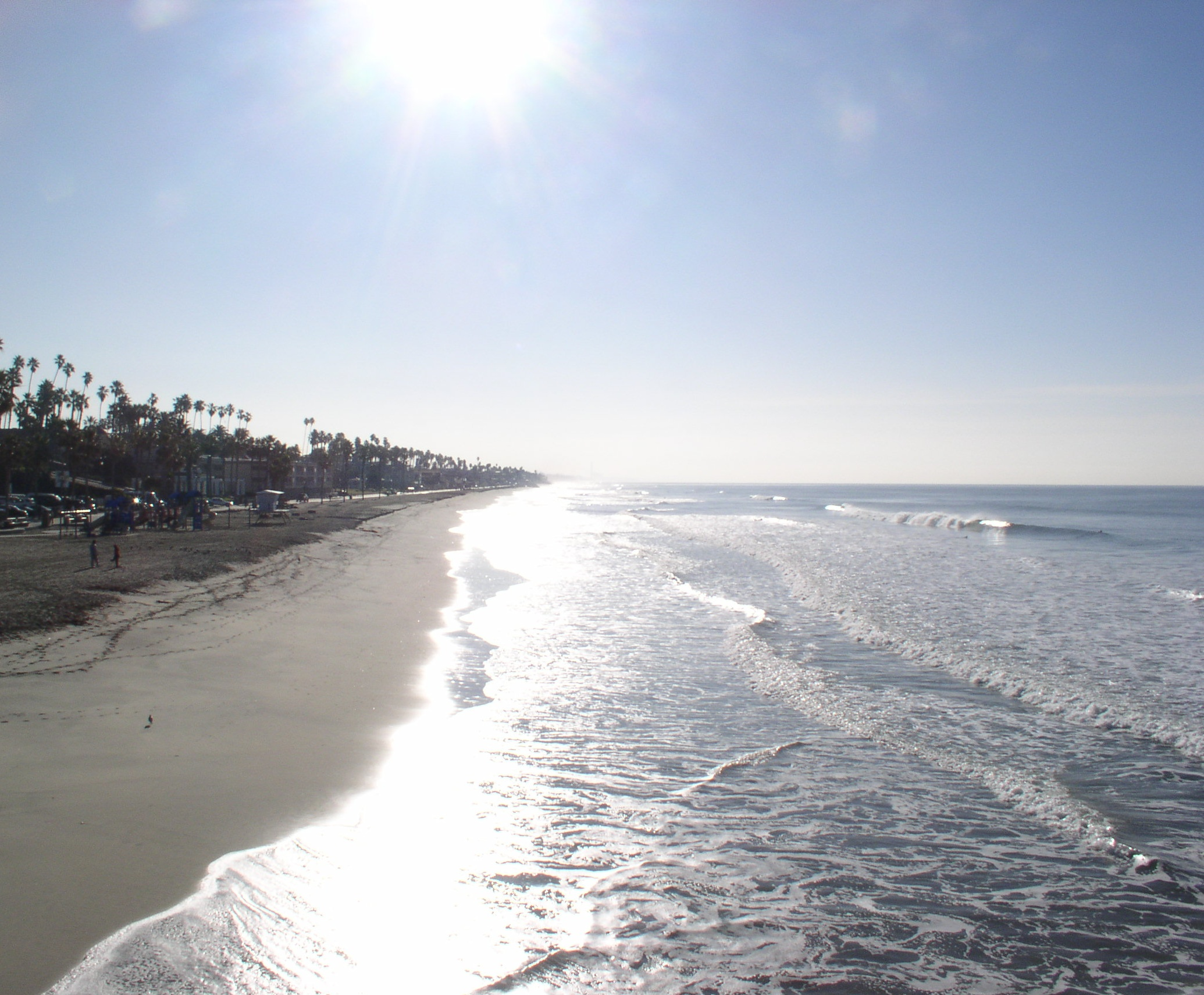 Picture of beach looking south from the Oceanside Pier. Taken by John P. Salvatore